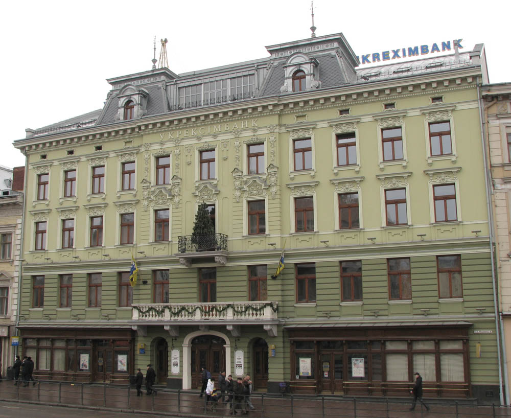 Ukreximbank, Lviv